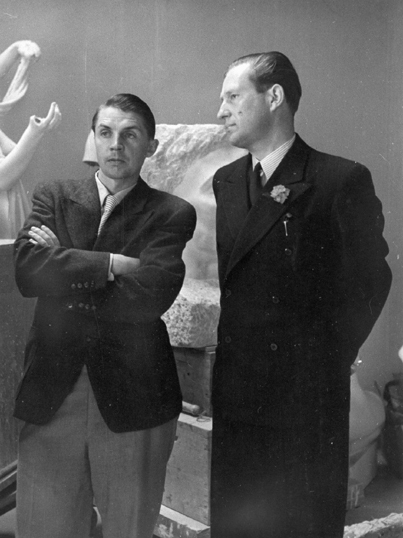 Director of the Office for Reconstruction Viljo Revell (right) and Standards Director Aarne Ervi. Revell had been appointed to the agency to ensure architectural and design quality in reconstruction occuring after the Winter War.